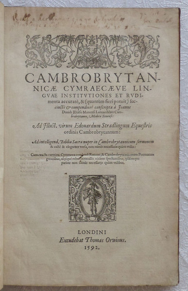 Title page of Cambrobrytannicae Cymraecaeve Linguae Institutiones et Rudimenta by Siôn Dafydd Rhys